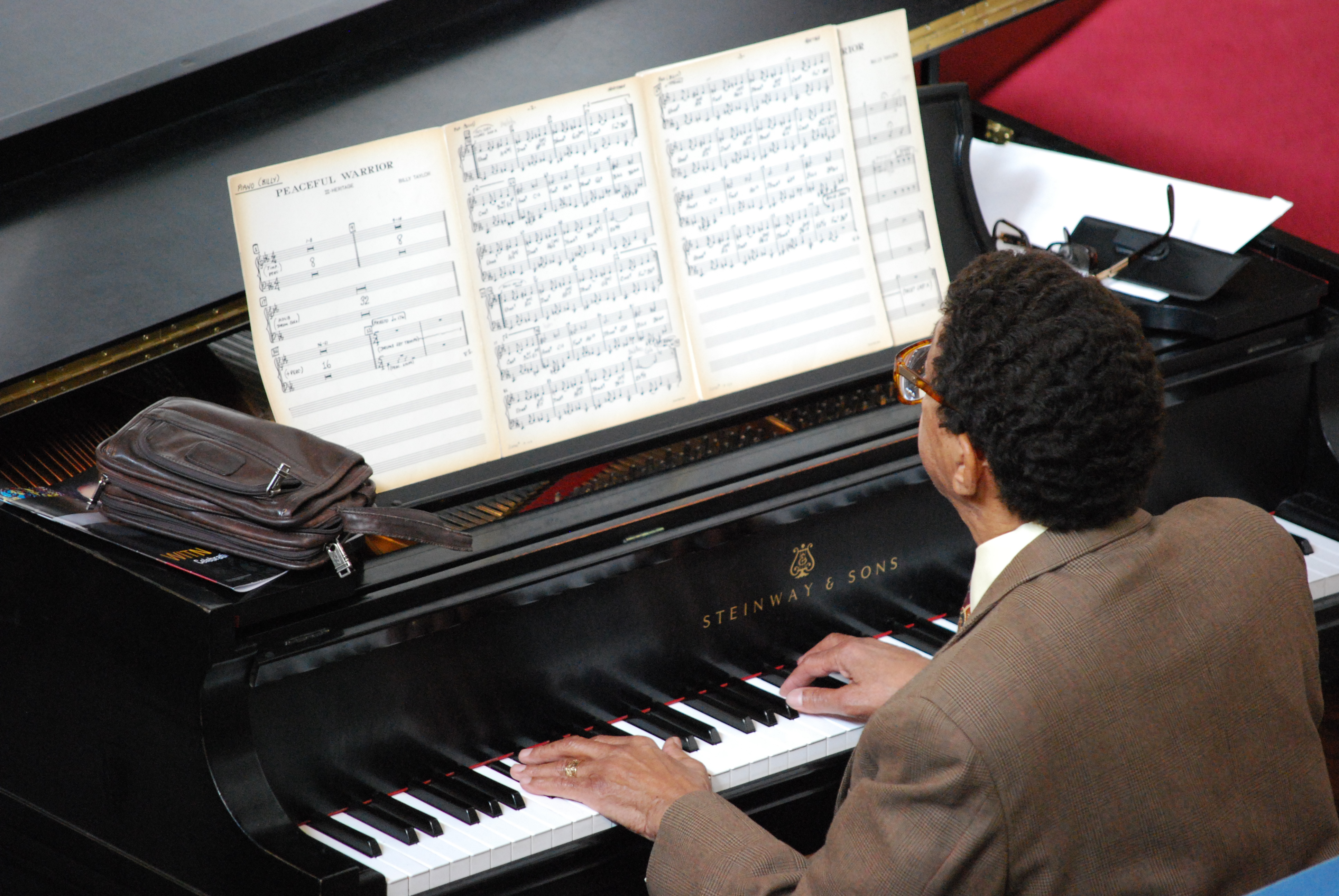 Dr. Billy Taylor rehearses "Peaceful Warrior"